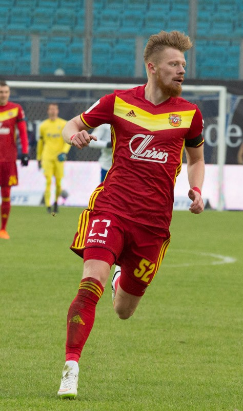 Ivan Yevgenyevich Novoseltsev